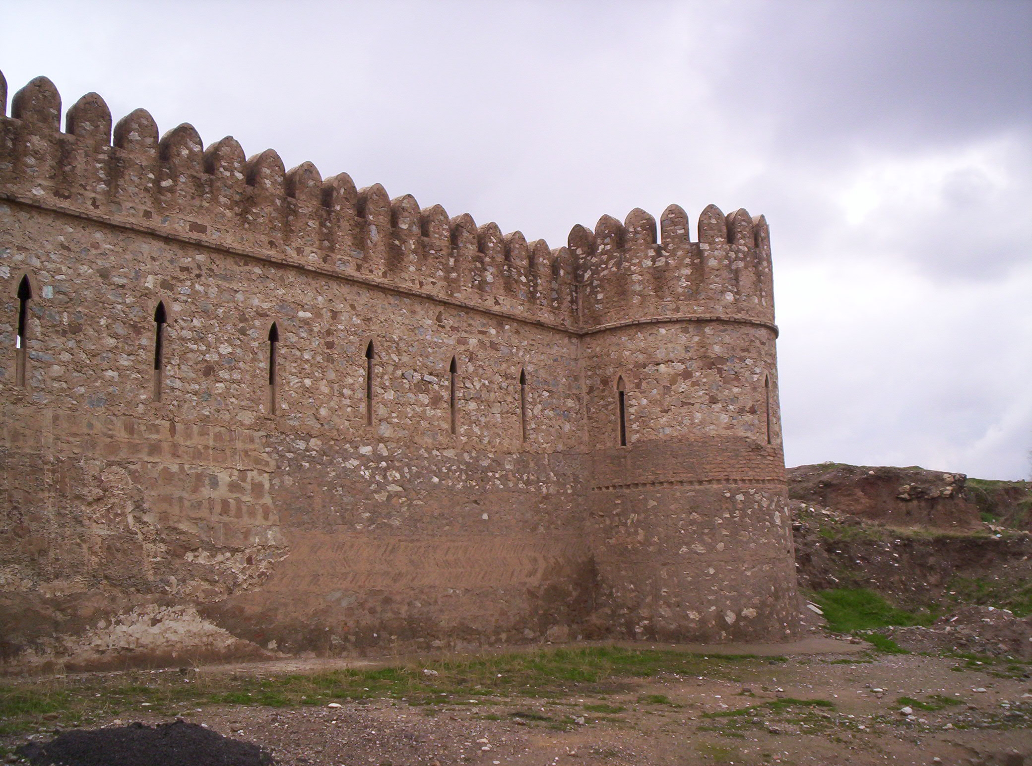 Chad Hill, Ancient citadel in Kirkuk, Iraq